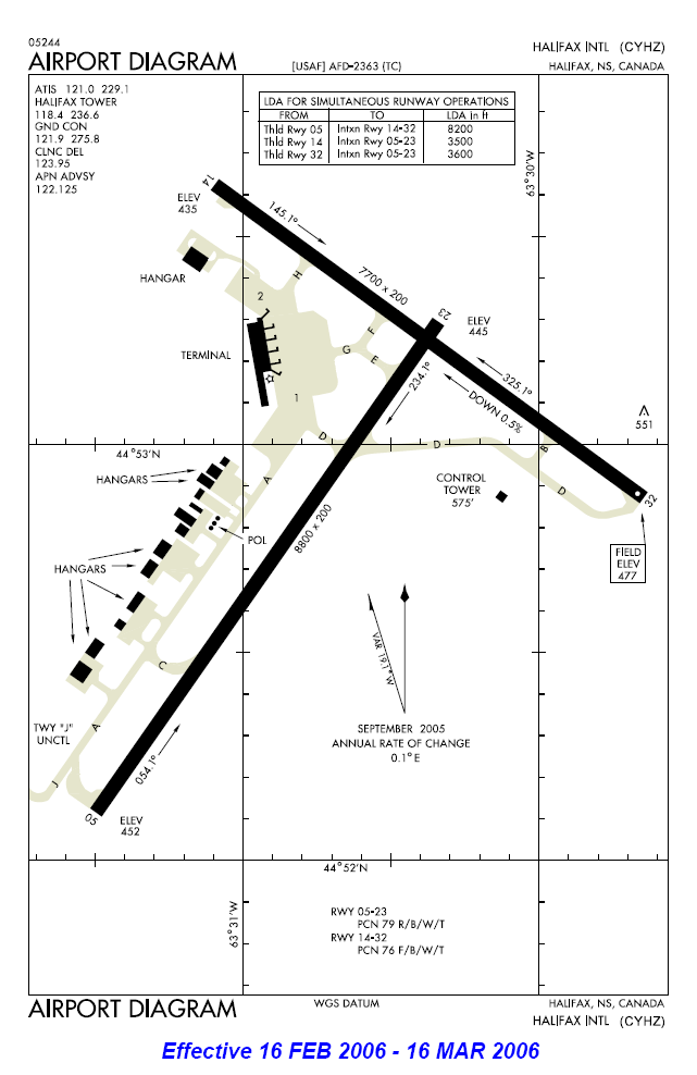 Airport diagram for Halifax International Airport (CYHZ)